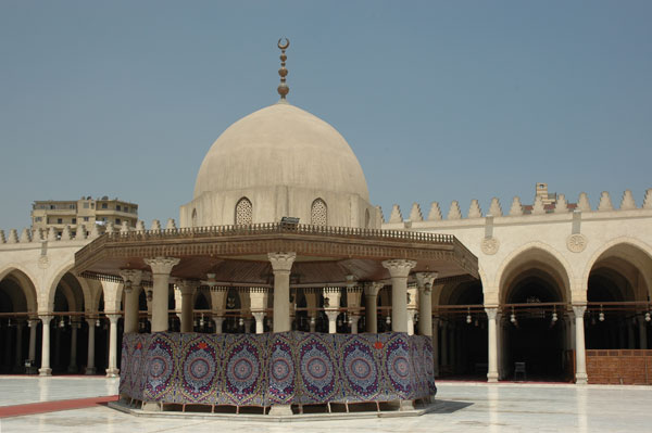 Mosque of Amr. Cairo. Egypt